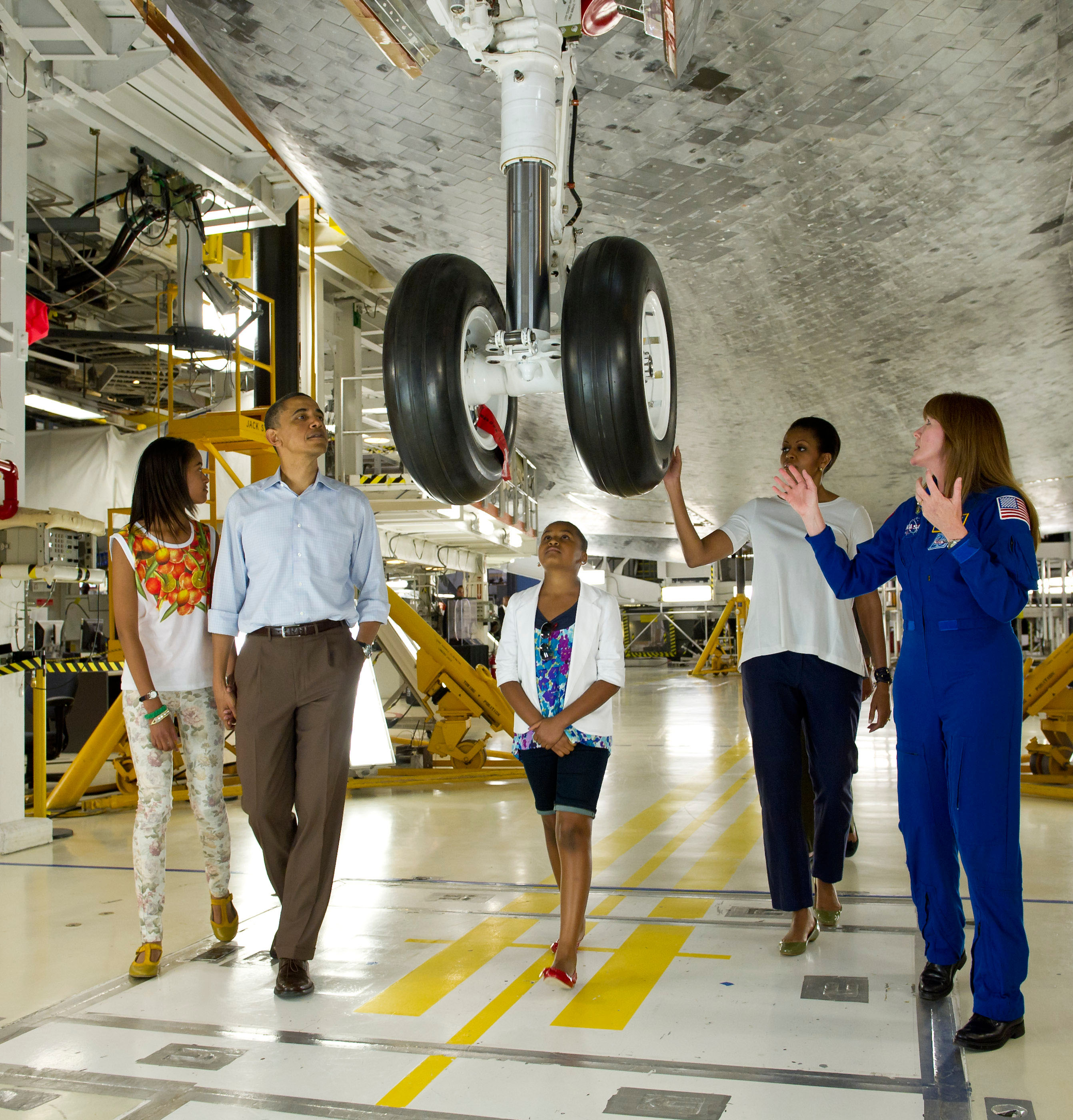 President Barack Obama, First Lady Michelle Obama, daughters Malia, left, Sasha, and astronaut Janet Kavandi walk under the landing gear from beneath the nose of space shuttle Atlantis as they visit NASA's Kennedy Space Center in Cape Canaveral, Fla., April 29, 2011.